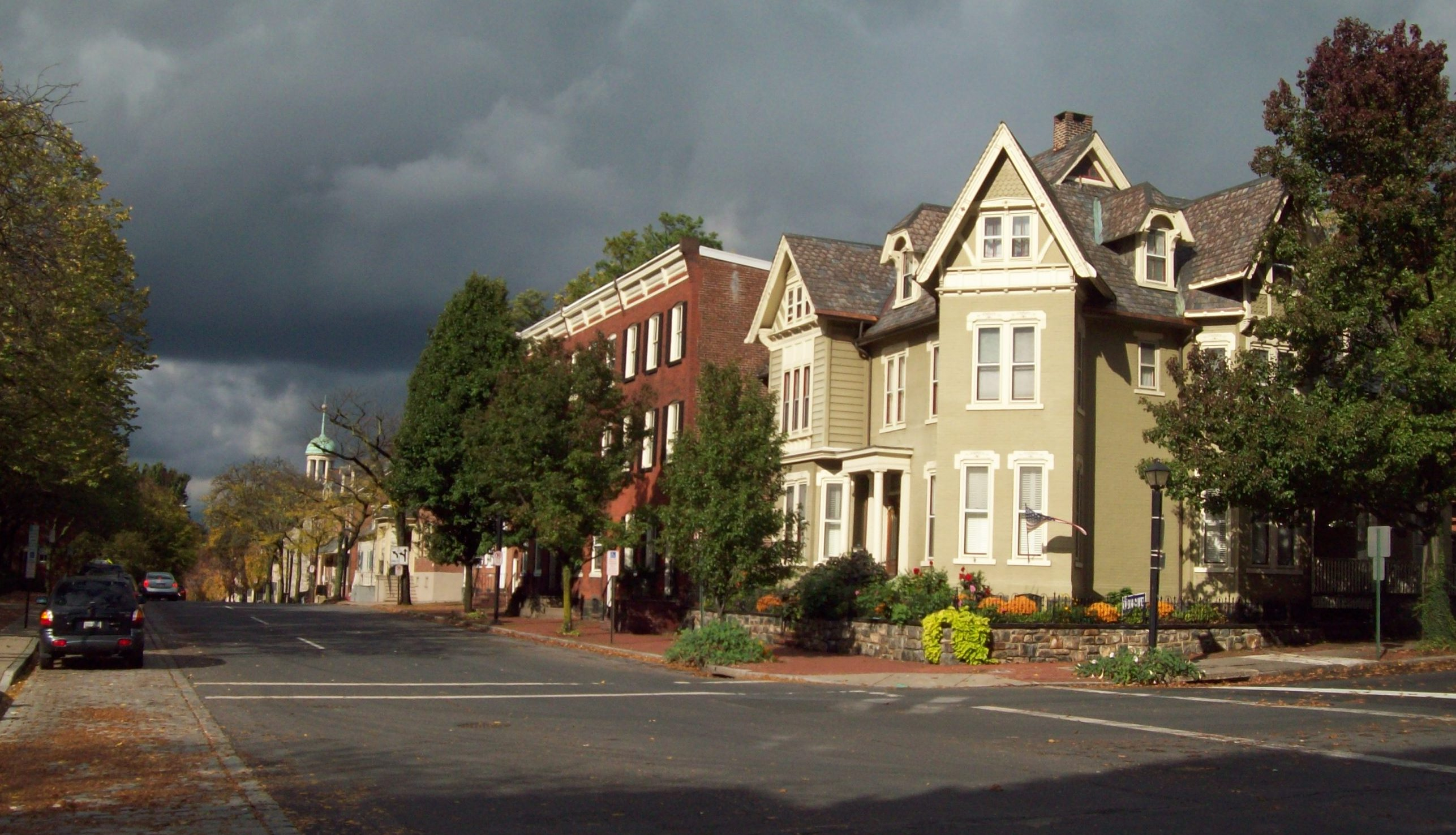 W. Church Street at New Street, Bethlehem, Pennsylvania, October 2011